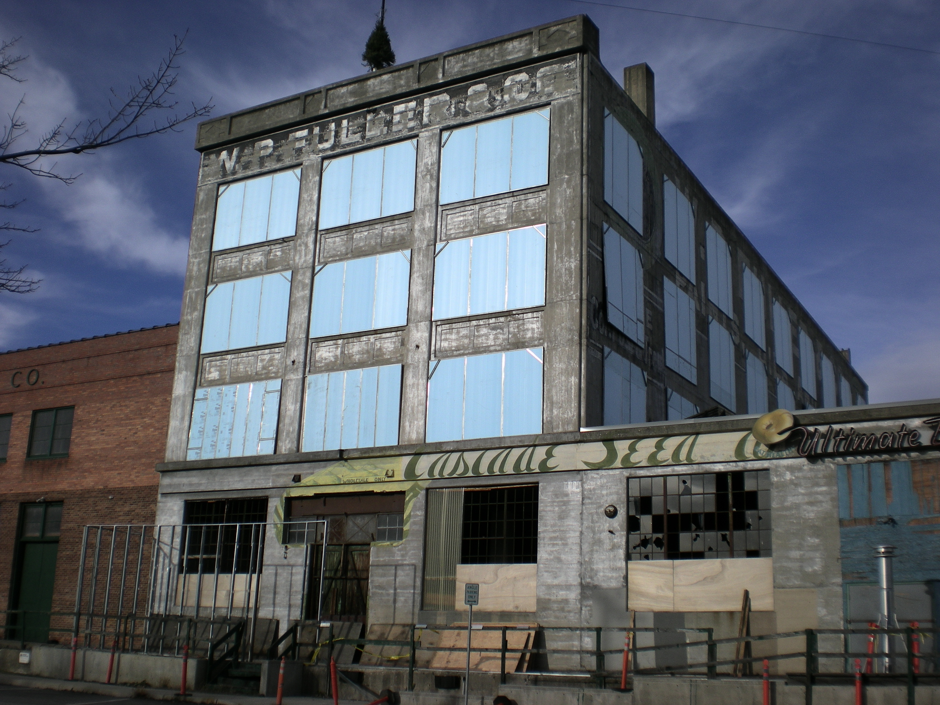 The W.P. Fuller and Company Warehouse in Spokane, Washington